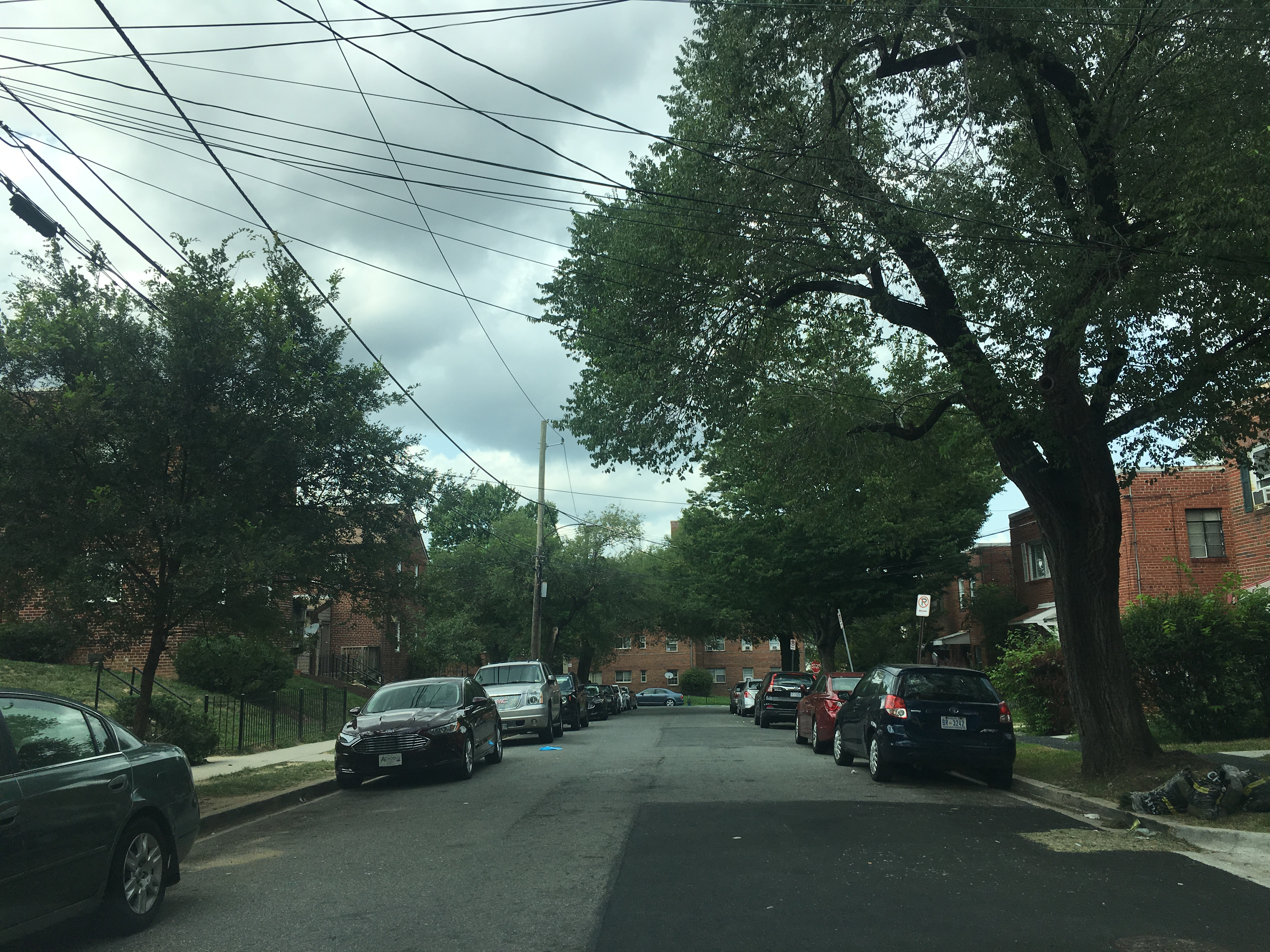 Knox Hill neighborhood looking North on 24th Pl SE, August 2018